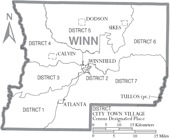 Map of Winn Parish, Louisiana, United States with municipal and district boundaries